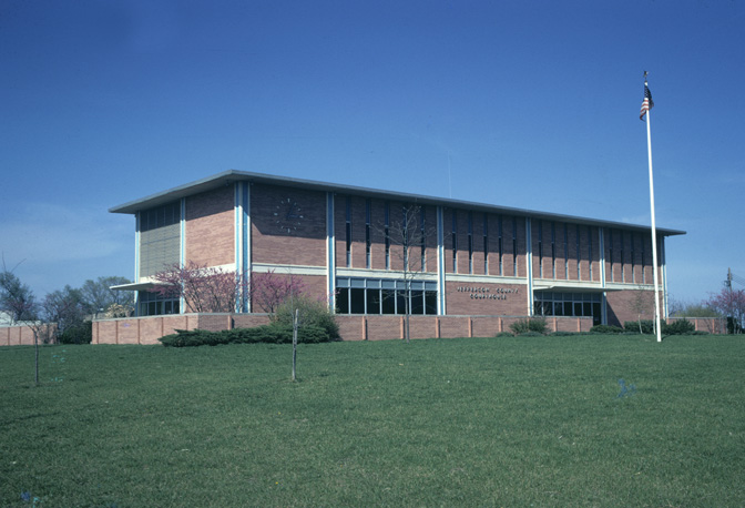 Jefferson County Courthouse (Built 1960's), Oskaloosa, Kansas